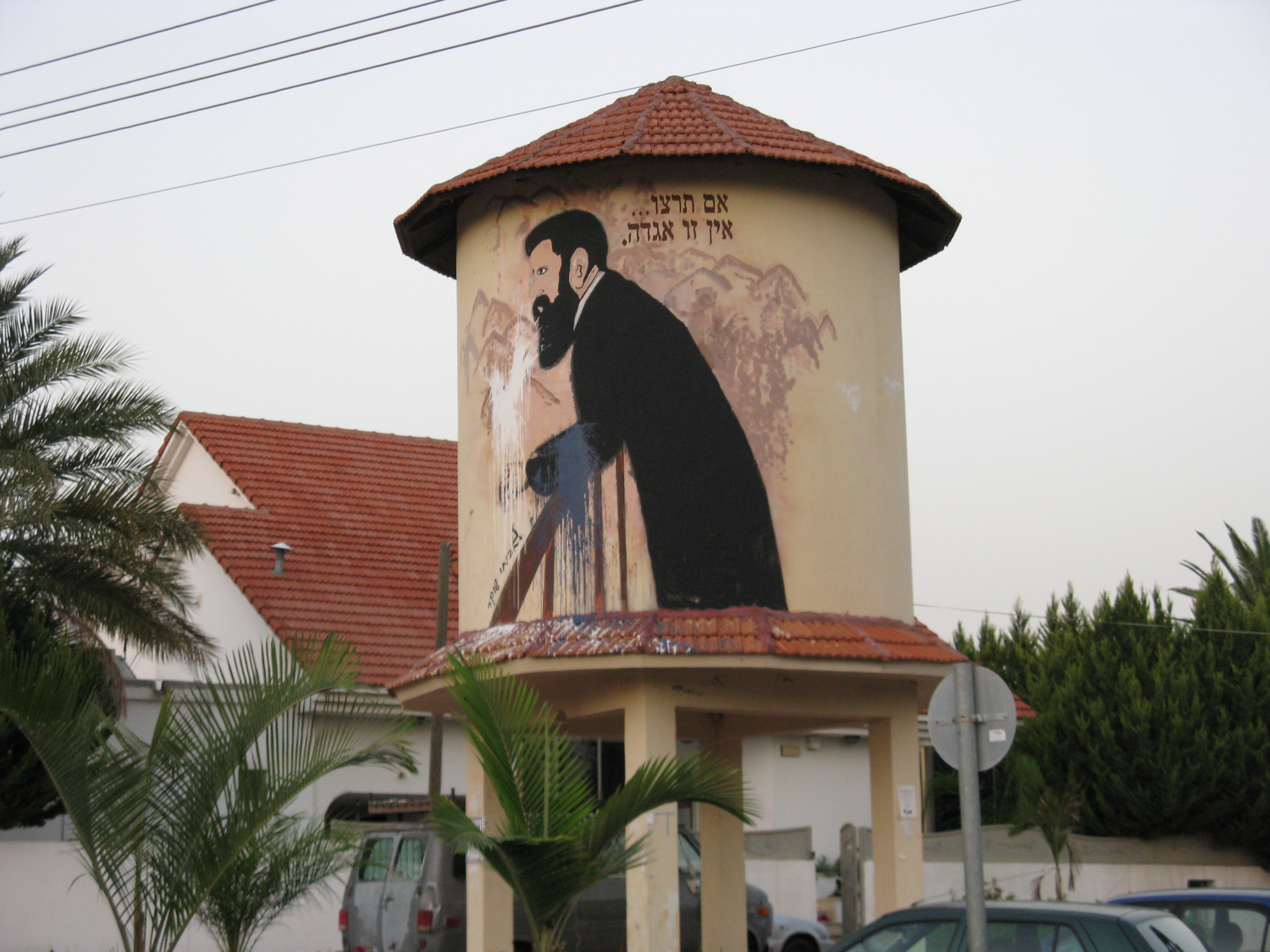 The water tower in Kiriat Ekron, Israel